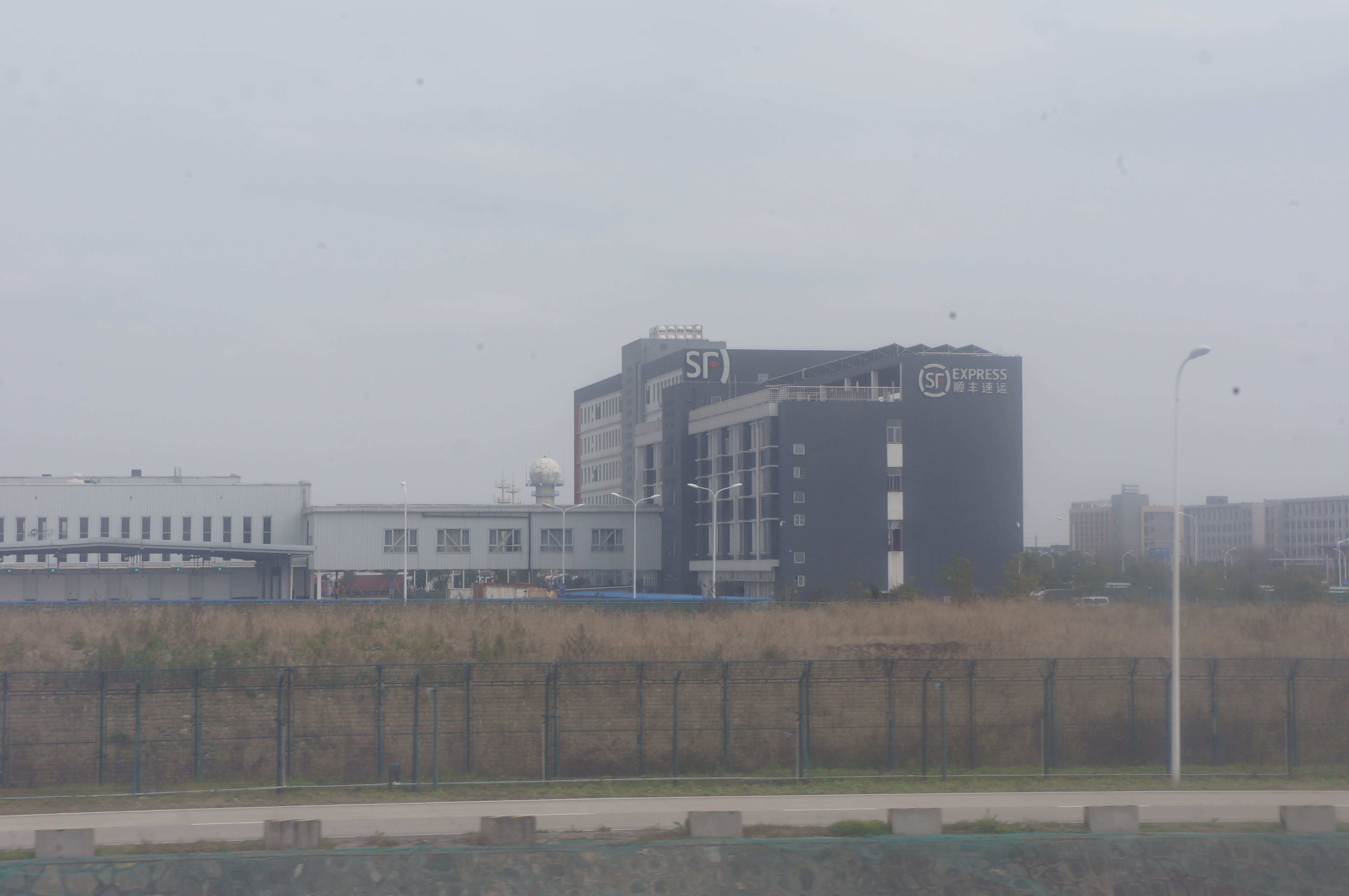 201701 SF Express Office at HGH